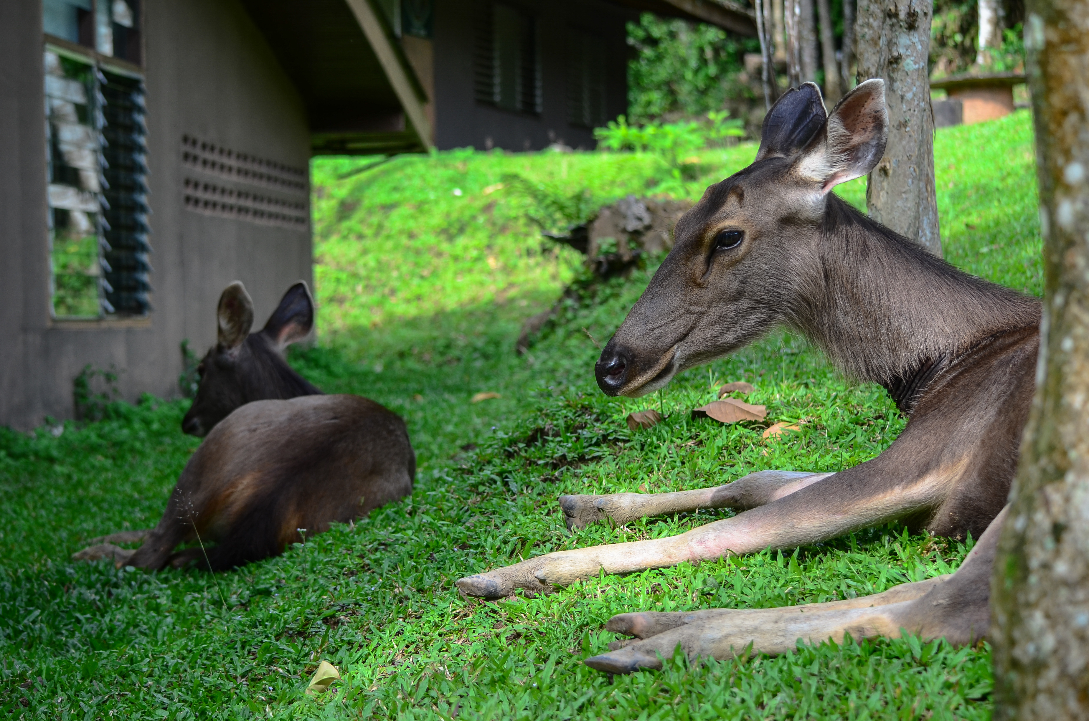 อุทยานแห่งชาติเขาใหญ่